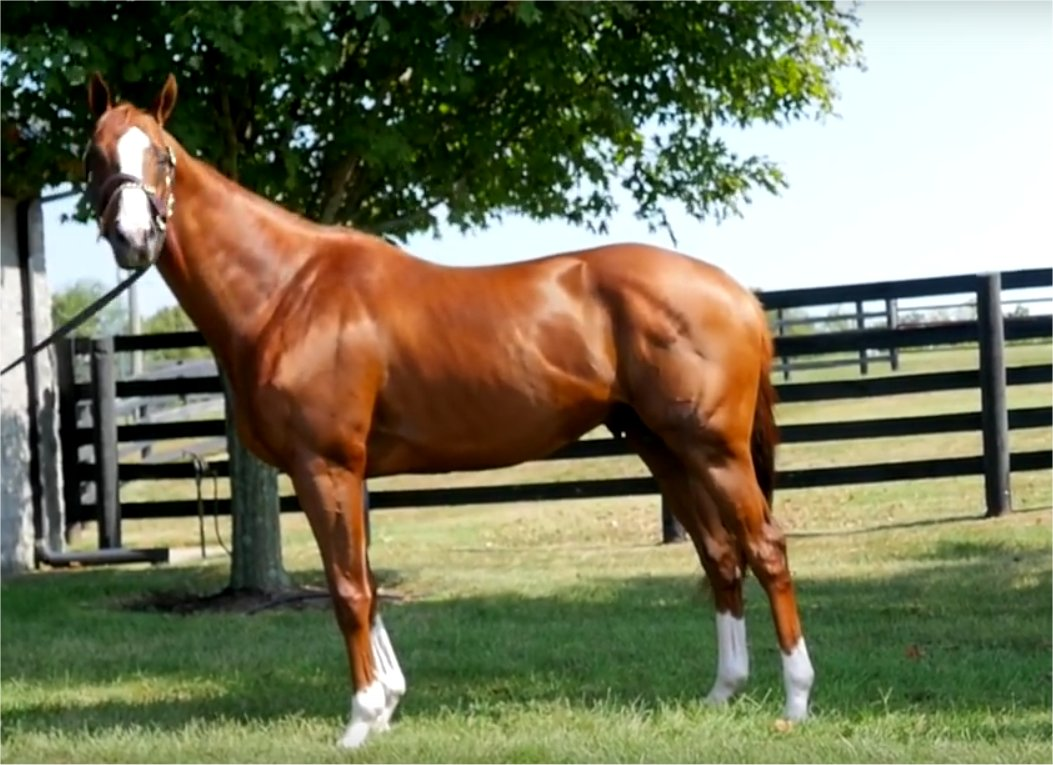 2014 Kentucky Derby and Preakness winner, California Chrome, at Taylor Made Farm in 2015.